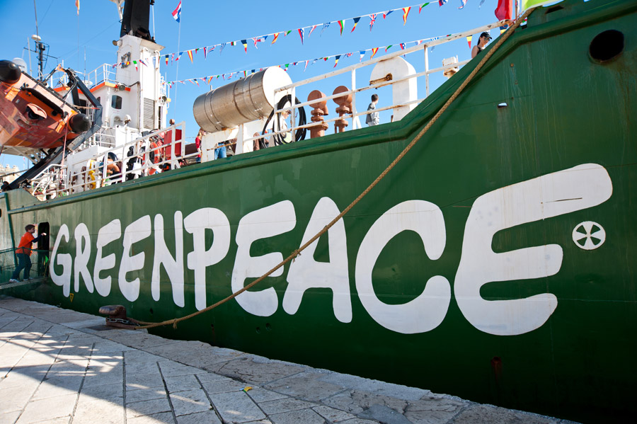 Greenpeaceov brod Arctic Sunrise u Rijeci